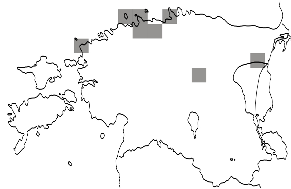 Bryoria furcellata. Distribution in Estonia 2011.